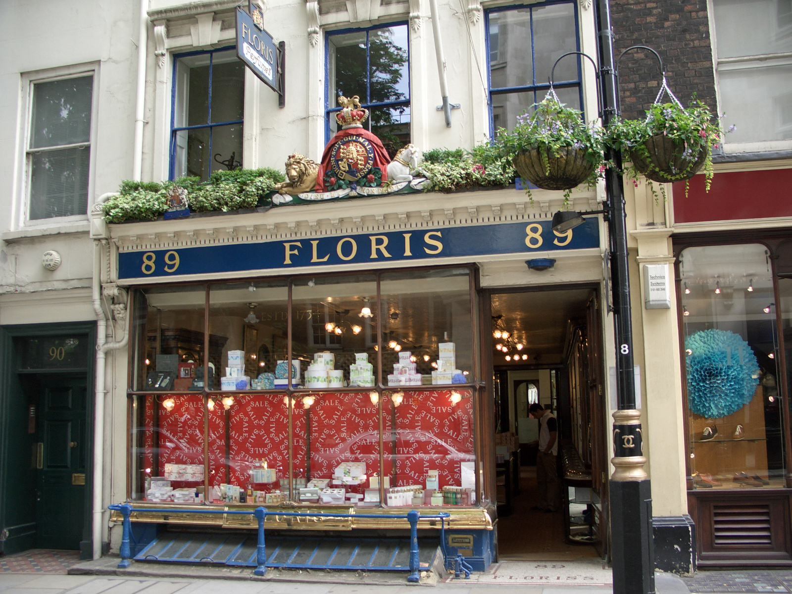 Floris of London